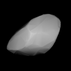 3D convex shape model of 882 Swetlana, computed using light curve inversion techniques. J. Hanuš, J. Ďurech, M. Brož, B. D. Warner (June 2011). "A study of asteroid pole-latitude distribution based on an extended set of shape models derived by the lightcurve inversion method". Astronomy and Astrophysics 530: A134. ISSN 0004-6361. arXiv